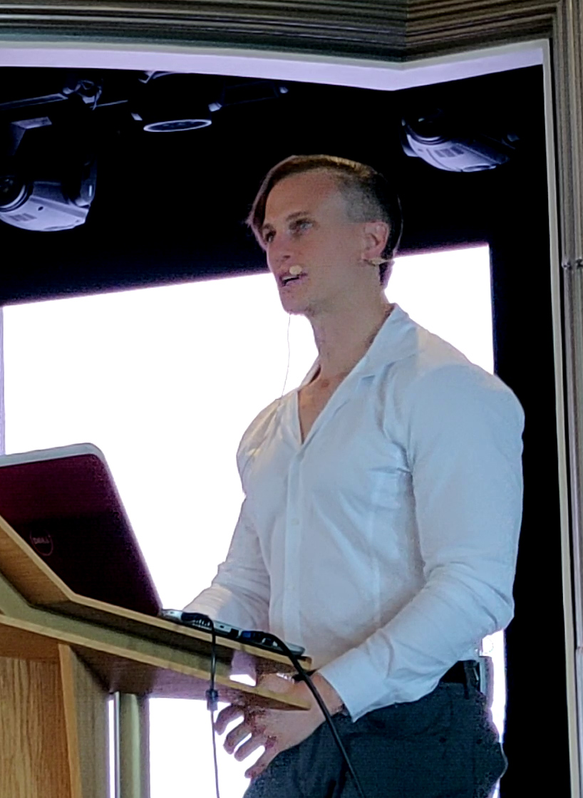 Fiann Paul public speaking, September 2018